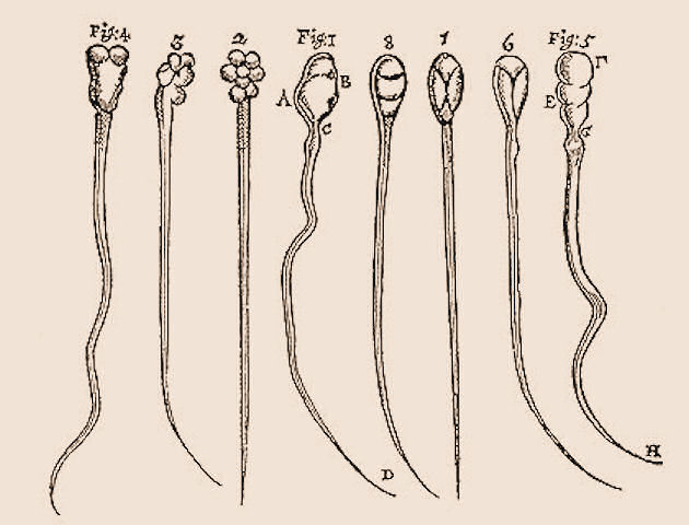 Sperm from rabbits and dogs, drawn by Antonie van Leeuwenhoek in 1678.